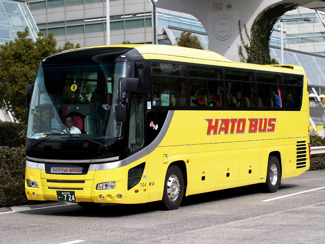 Hato Bus New Selega SHD (PKG-RU1ESAA) License plate: TKS230 A-724（品川230あ・724） Place: Ariake, Koto ward, Tokyo Japan